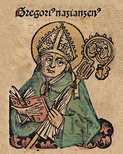 Illustration from the Nuremberg Chronicle